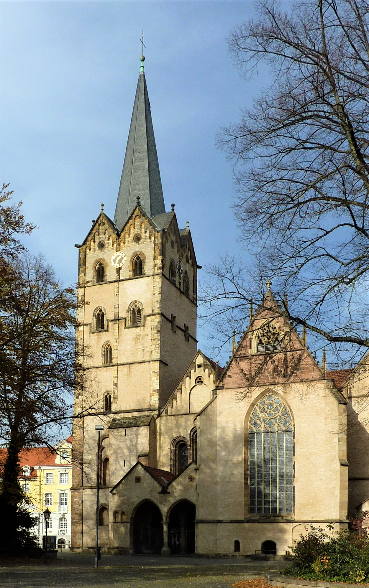 Cathedral in town of Herford, District of Herford, North Rhine-Westphalia, Germany.